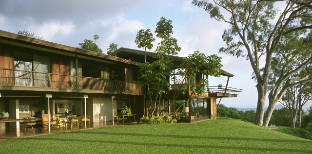 Makai (lower) elevation, Liljestrand House, 3300 Tantalus Drive, Honolulu, Hawaii, 96822, USA, on National Register of Historic Places